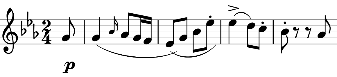 Joseph Haydn, Symphony No. 84, last movement, first violin, bar 1-4